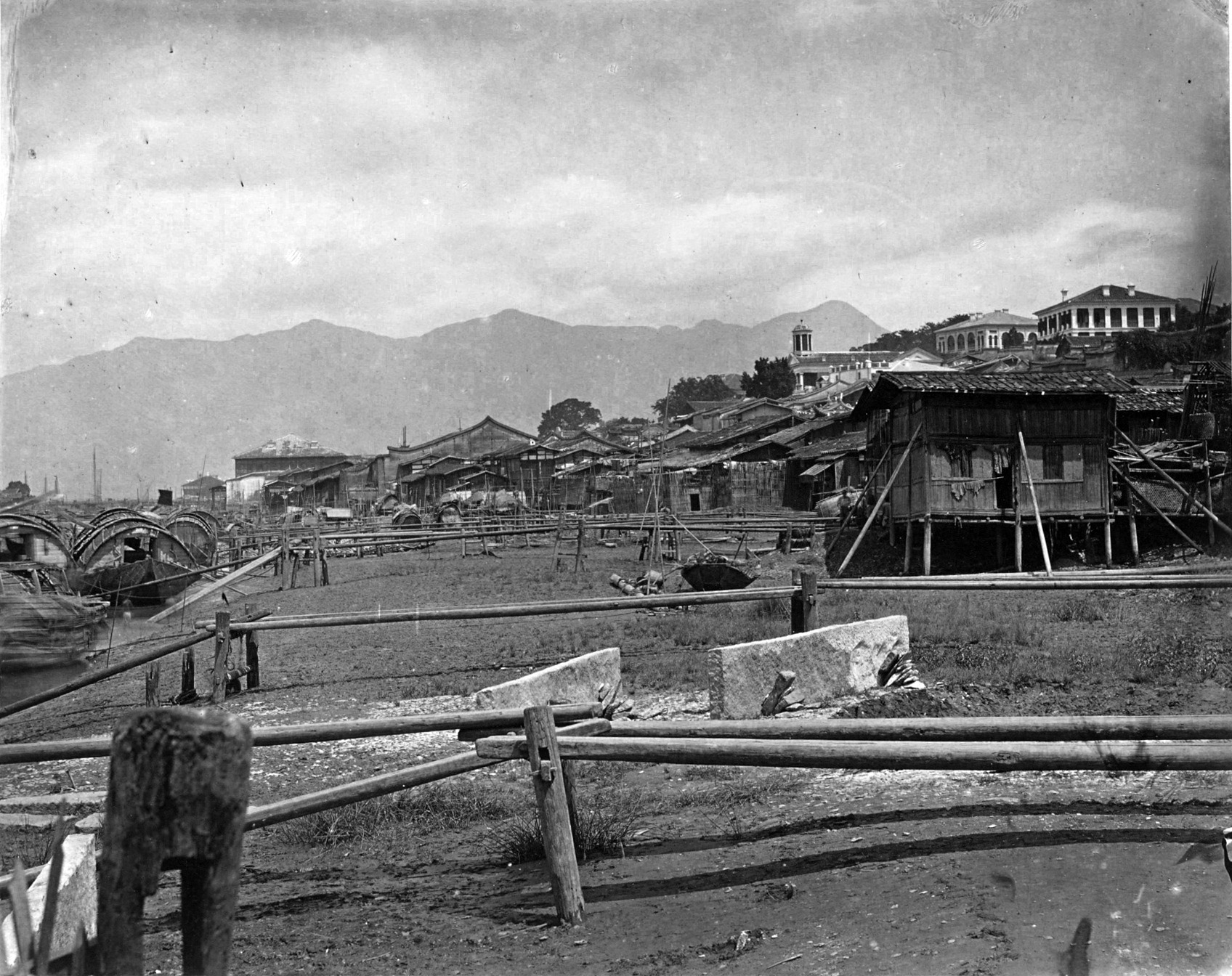 Photograph in From Afong, Photographer.